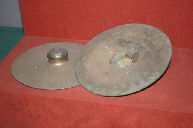 A pair of bronze cymbals from the Chinese Jin Dynasty (1115–1234 AD).